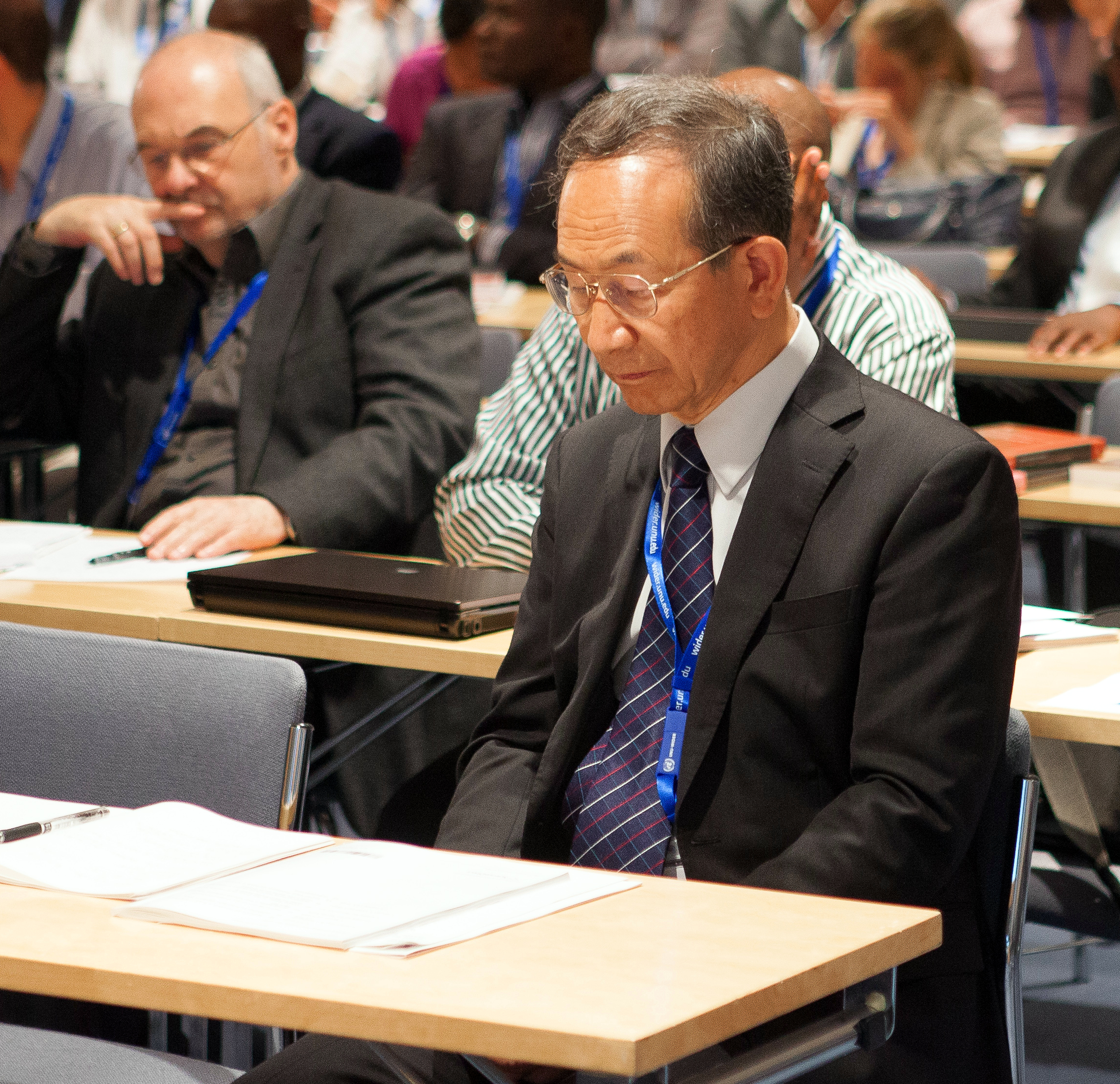 Akio Hosono, Senior Research Advisor of the Research Institute, Japan International Cooperation Agency, attended the Conference on Learning to Compete Industrial Development and Policy in Africa in Helsinki City, Uusimaa Region on June 25, 2013.